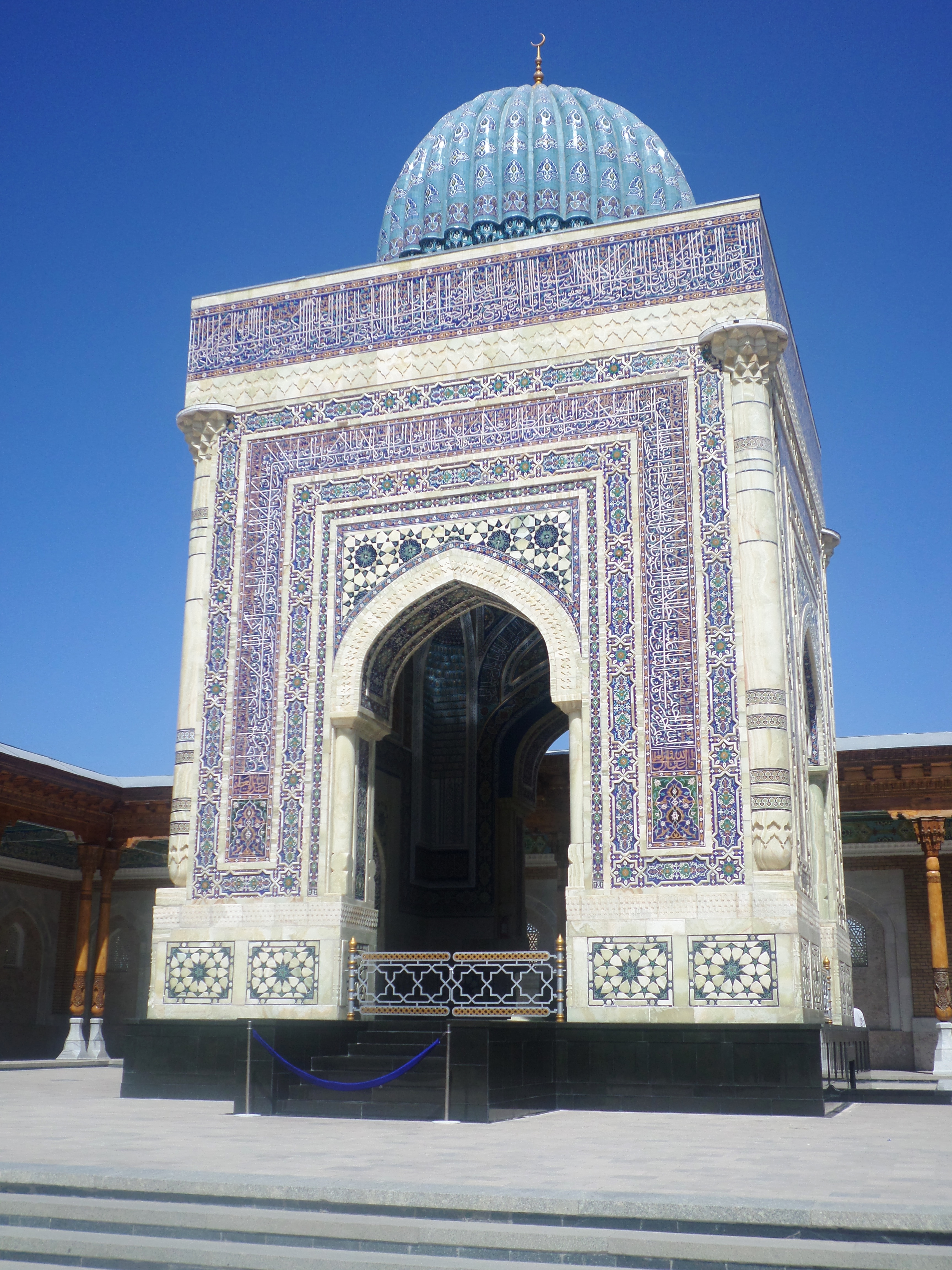 Al Bukhari Memorial, Samarkand Hartang village. Construction period 1997-1998